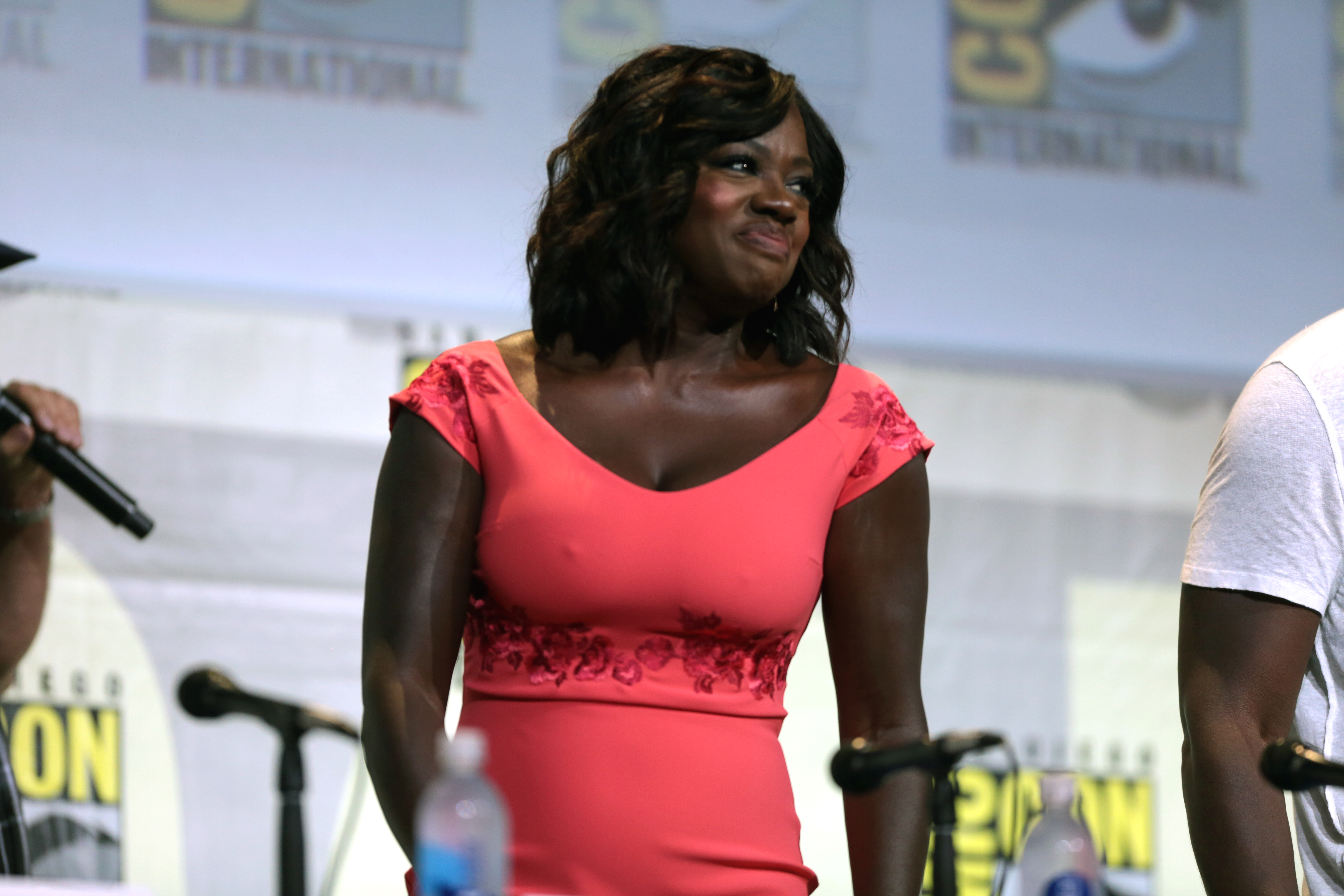 Viola Davis speaking at the 2016 San Diego Comic Con International, for "Suicide Squad", at the San Diego Convention Center in San Diego, California.